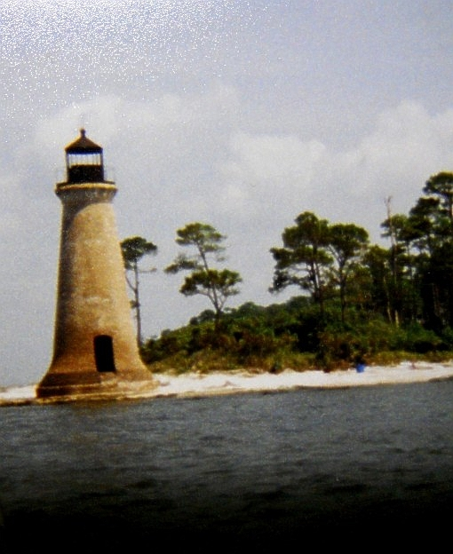 Digital representation of Round Island Lighthouse derived from photograph in private family collection. Round Island is located south of Pascagoula, Jackson County, Mississippi, USA.